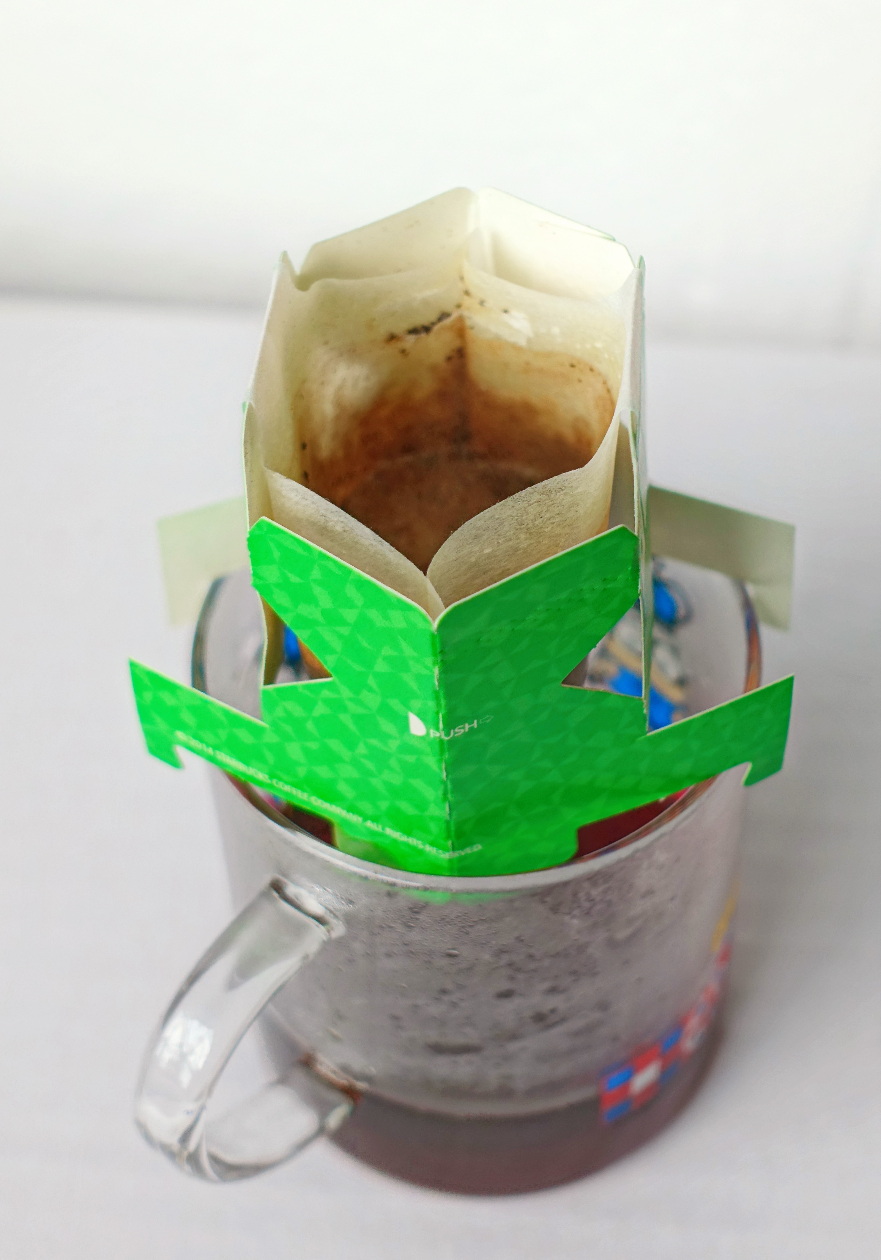 Starbucks Origami Personal Drip Coffee